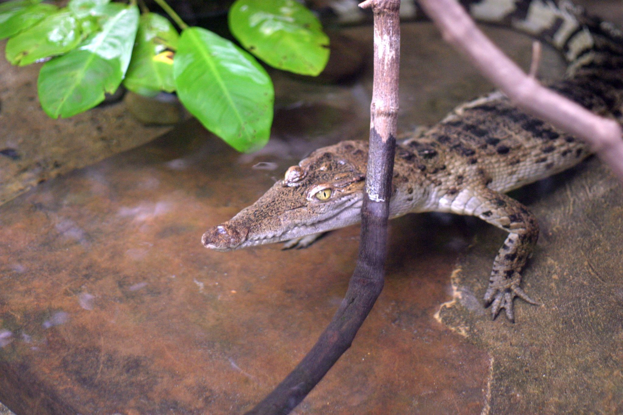 The Philipine Crocodile (Crocodylus mindorensis), less than 100 in the wild